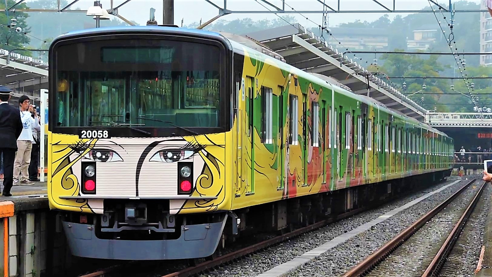 Seibu 20000 series EMU set 20158 in special Galaxy Express 999 vinyl wrapping livery (car 20058 at Ikebukuro end)